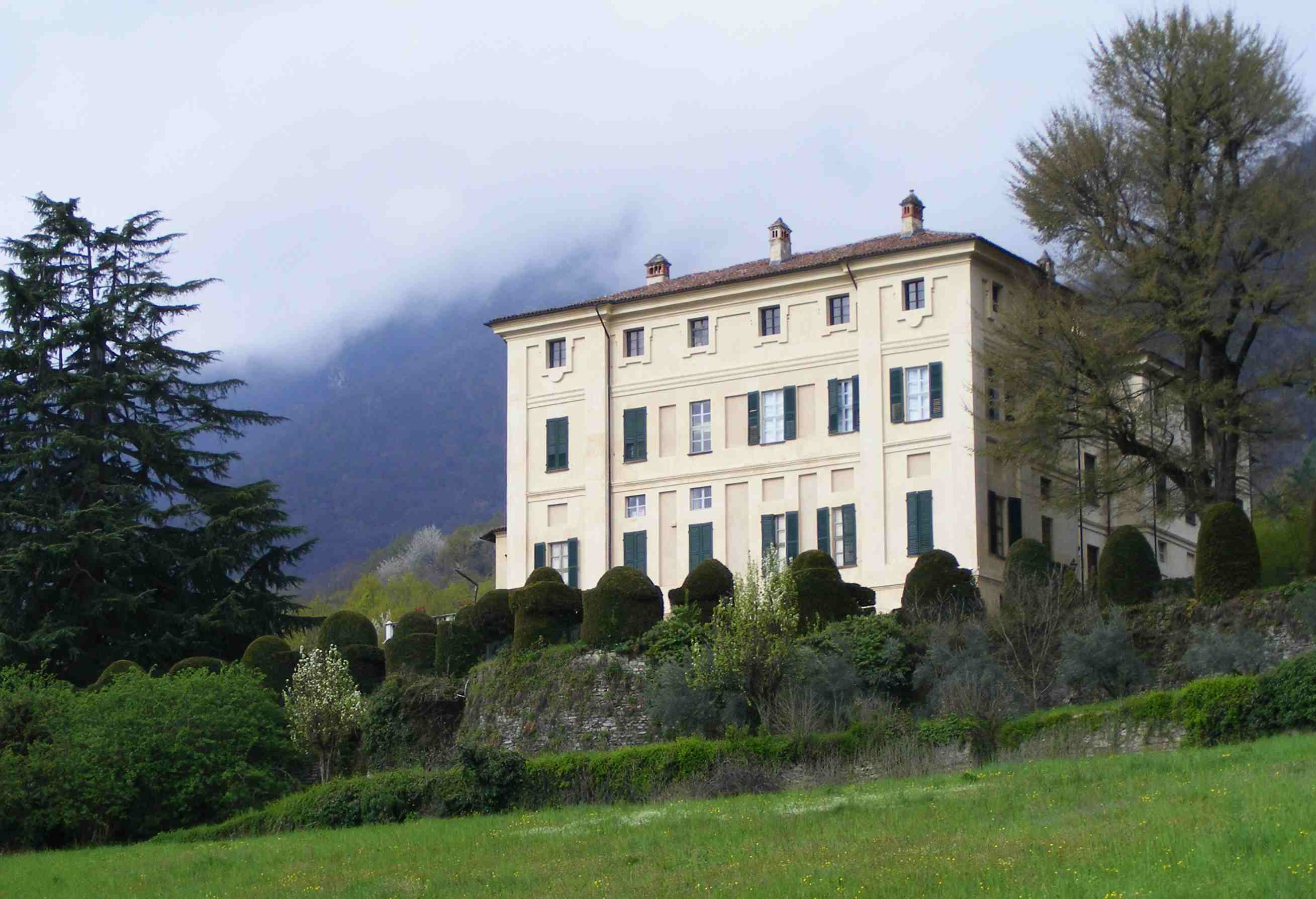 Cumiana, frazione Costa (TO, Italy): counts Canalis' castle